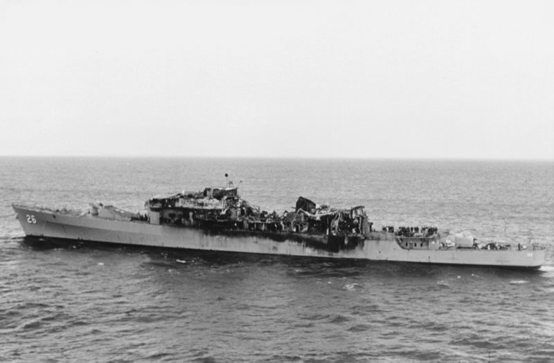 USS Belknap (CG 26) after her collision with USS John F. Kennedy on 22 November 1975. Removed watermark: "USS Belknap (CG 26) heavily damaged by fire, after a collision with USS John F. Kennedy (CV 67) during night operations off Sicily, 22 November 1975. Navy photo: K-111927"